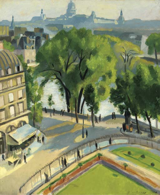 Vue du Quai du Louvre, signed and dated 'R.Delaunay 1928', oil on canvas, 65 x 54 cm